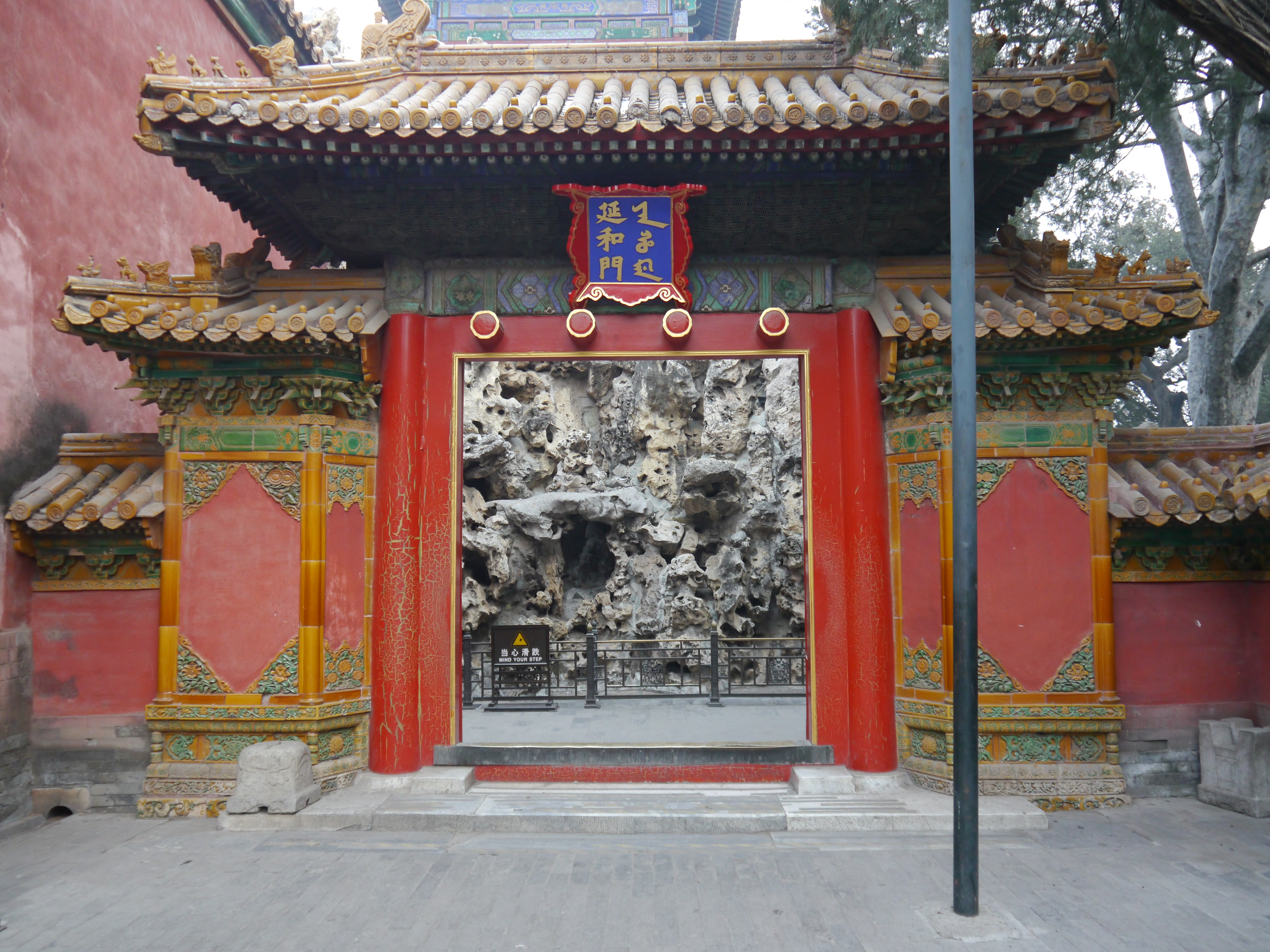 China, Beijing, Forbidden City.